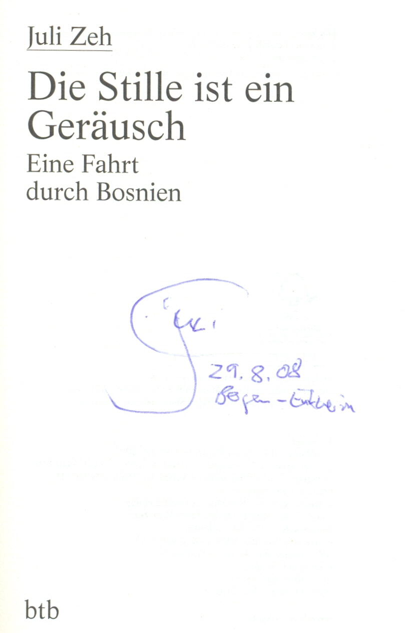 autograph from Juli Zeh